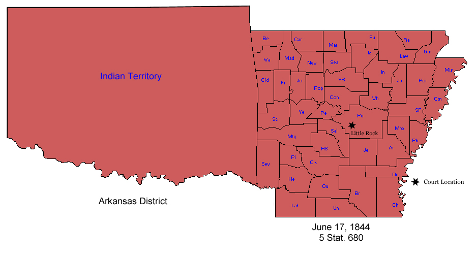 Arkansas District - 1844